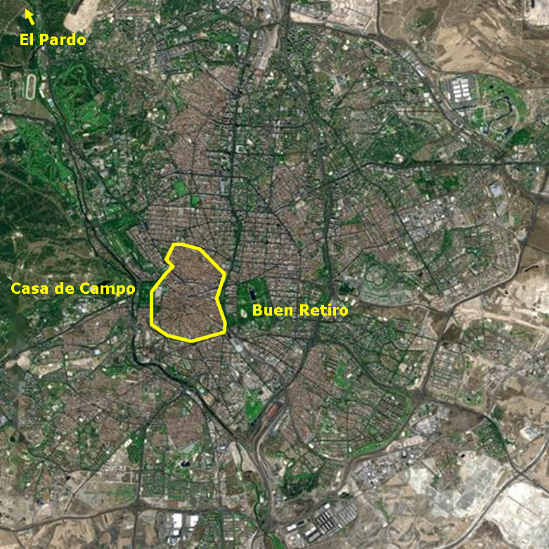 Location of Madrid de los Austrias, in aerial image of Madrid (2002)